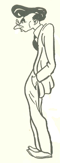 Caricature of Zeth Höglund, cropped from image by by Hjalmar Pettersson published in Folkets Dagblad Politiken, May 1, 1926